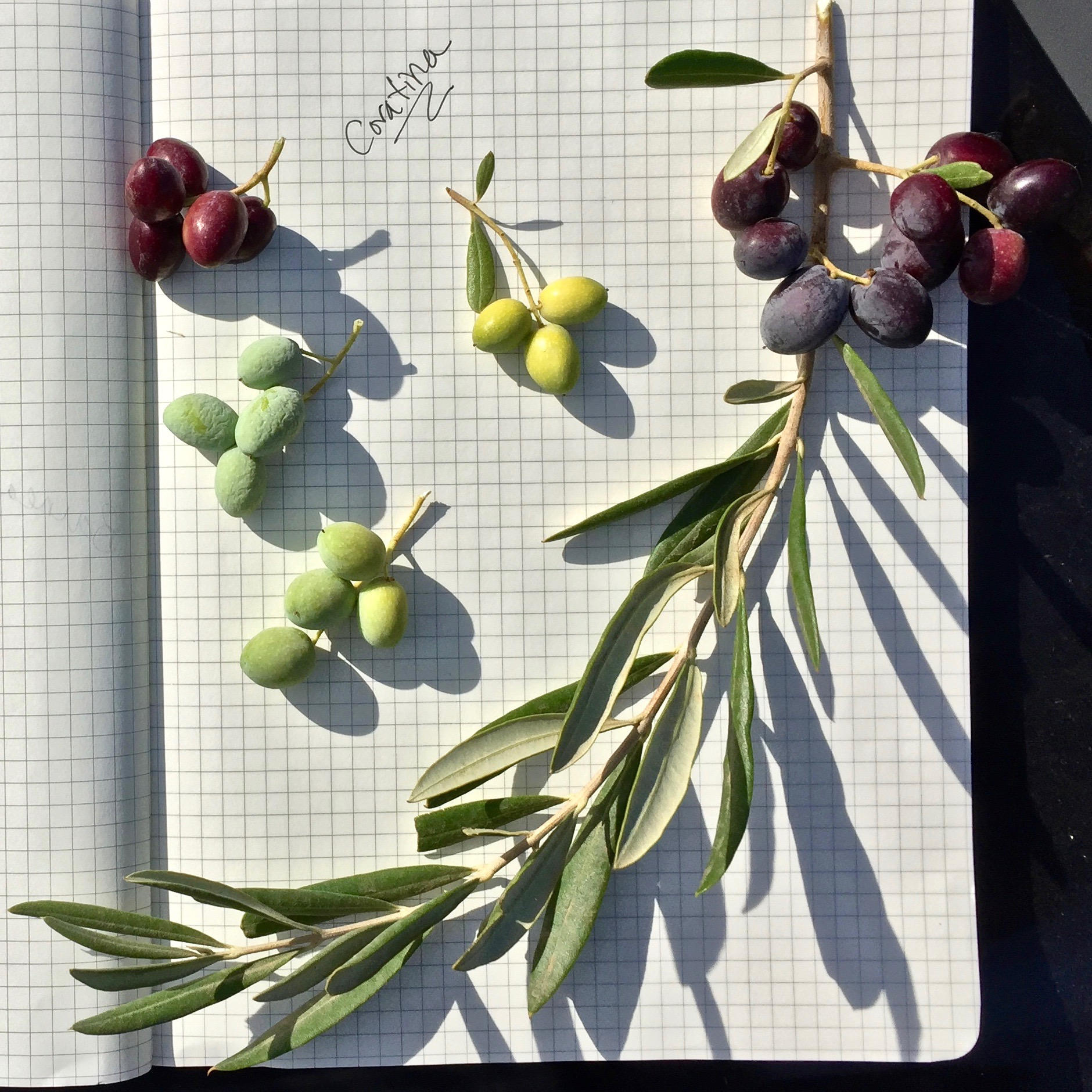 Coratina at different stages of ripening